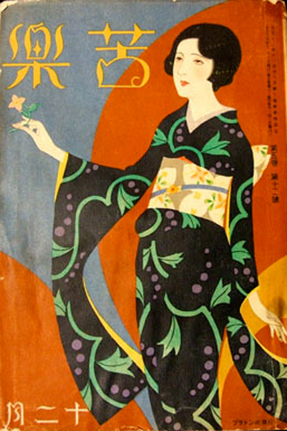 Kuraku Dec 1 1926 cover